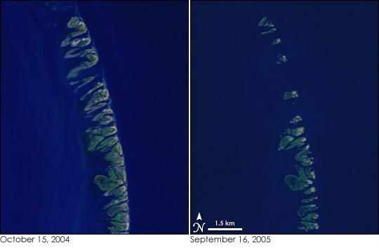 Two images of the Chandeleur Islands off the coast of Louisiana, USA. The left image is from 2004 and the right is from 2005, after Hurricane Katrina.